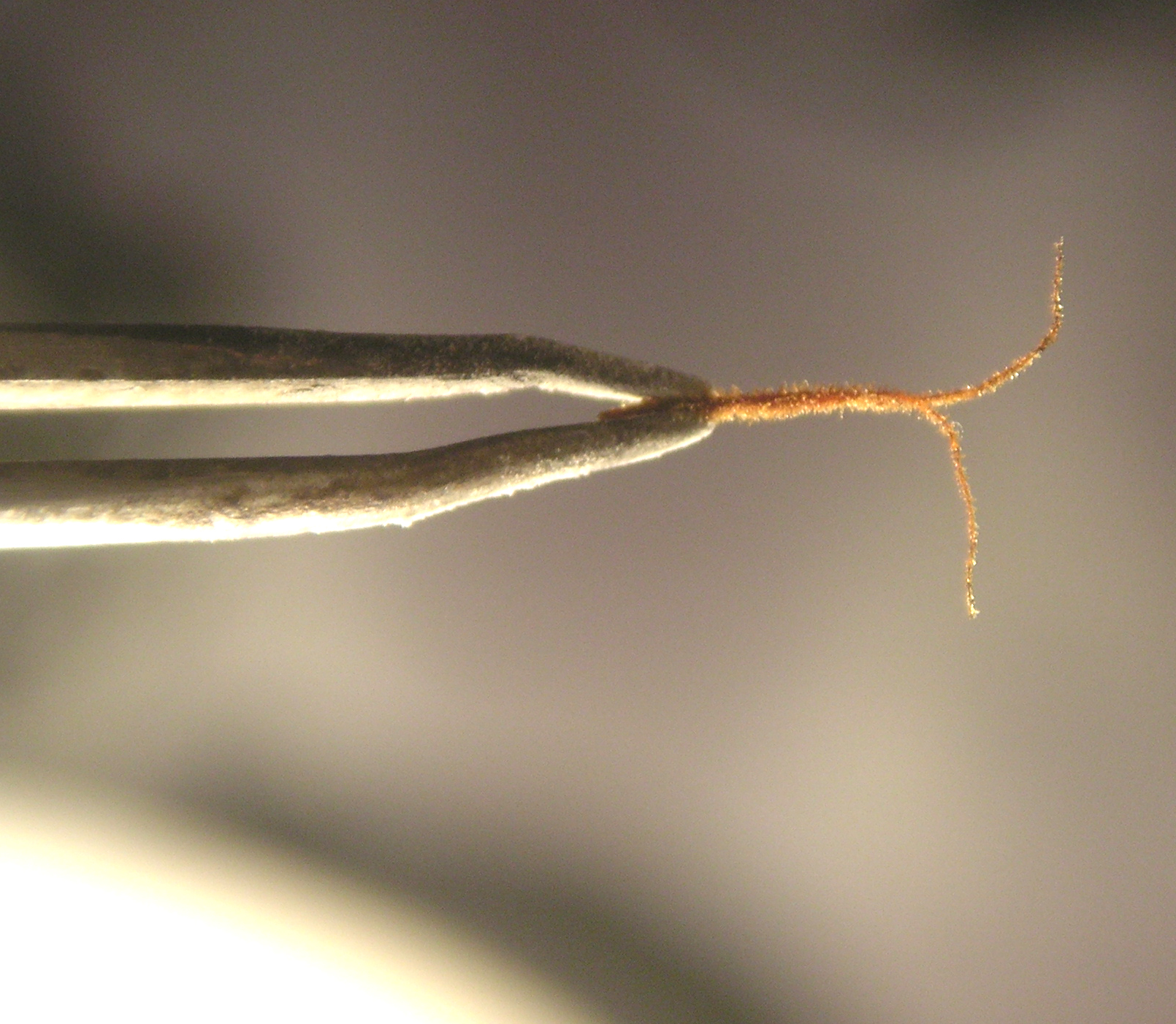 Pistil Ready and Willing to Receive Pollination